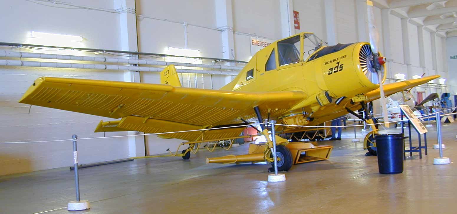 Wroughton Museum, UK